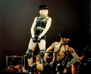 Photo Taken By a Fan During One of The Concerts of 1990